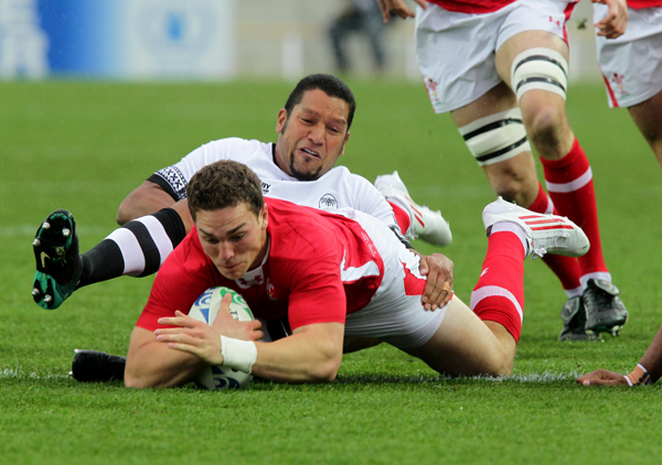 coupe du monde de rugby 2011 nouvelle zelande pays de galles fidgi